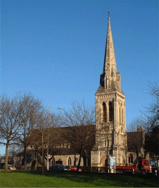 Parish church of St Michael and All Angels, Wood Green, London N22, seen from the south